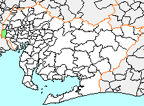 Position of former Tatsuta village (立田村), Aichi, Japan